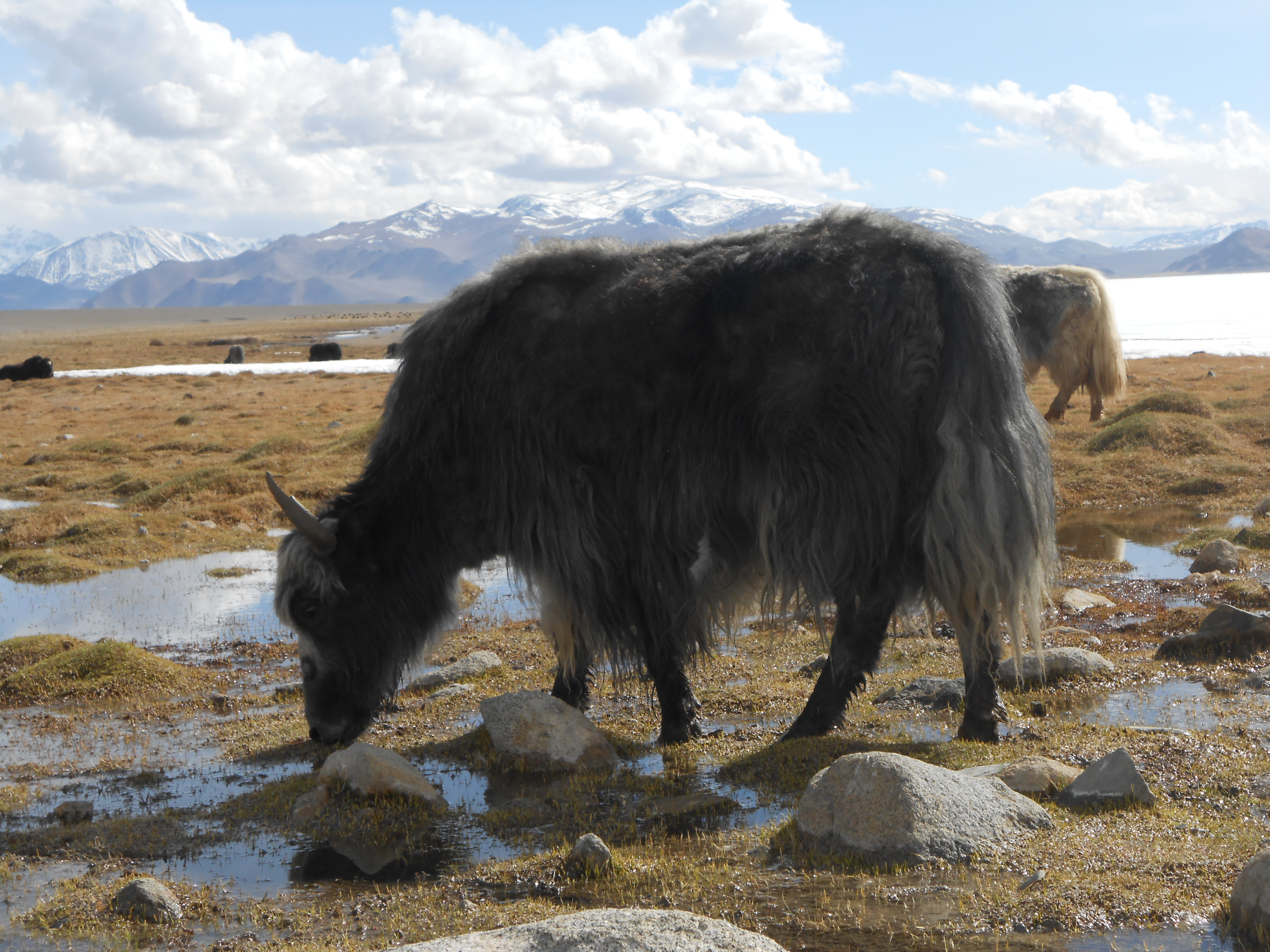 Yak at Kara-Kul Lake, Pamir, Tajikistan.